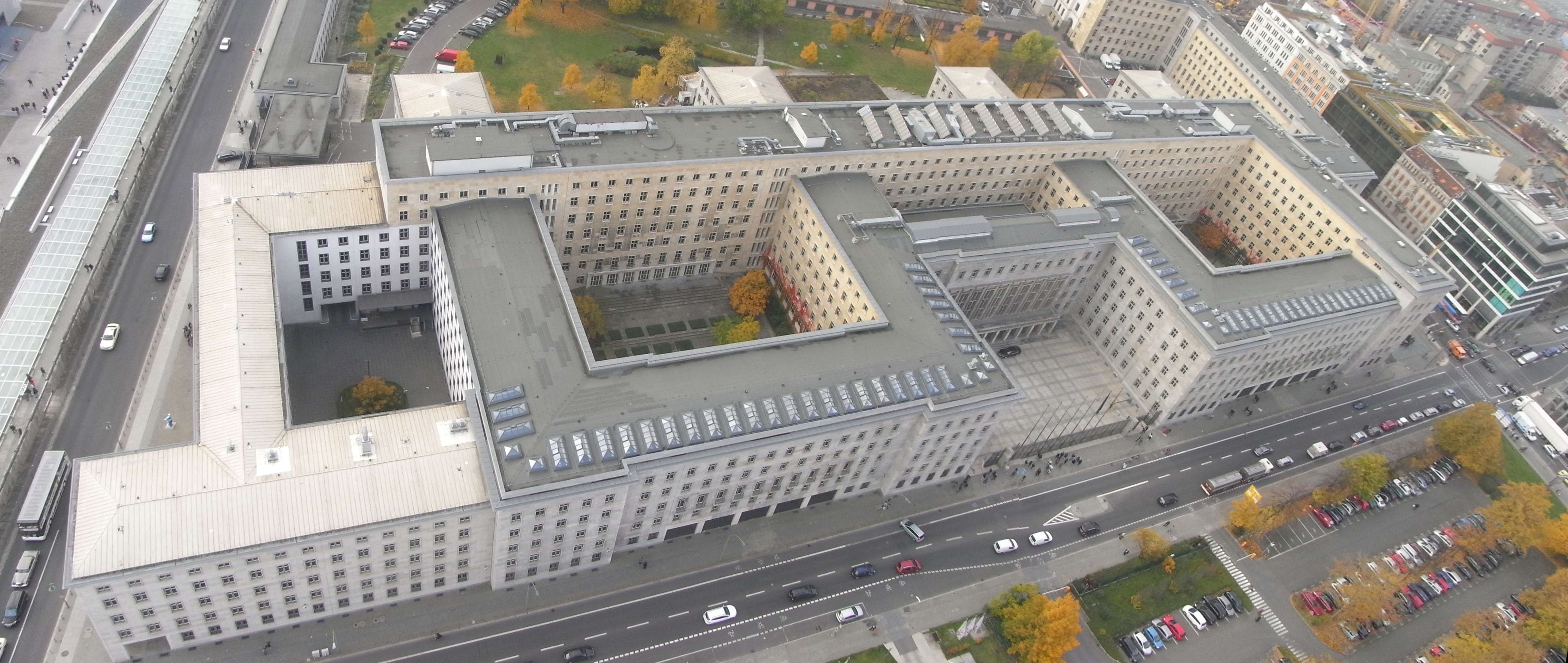 Aerial view of Detlev-Rohwedder-Building, Wilhelmstraße, Berlin (formerly known as Reichsluftfahrtministerium, Haus der Ministerien, Treuhandanstalt)